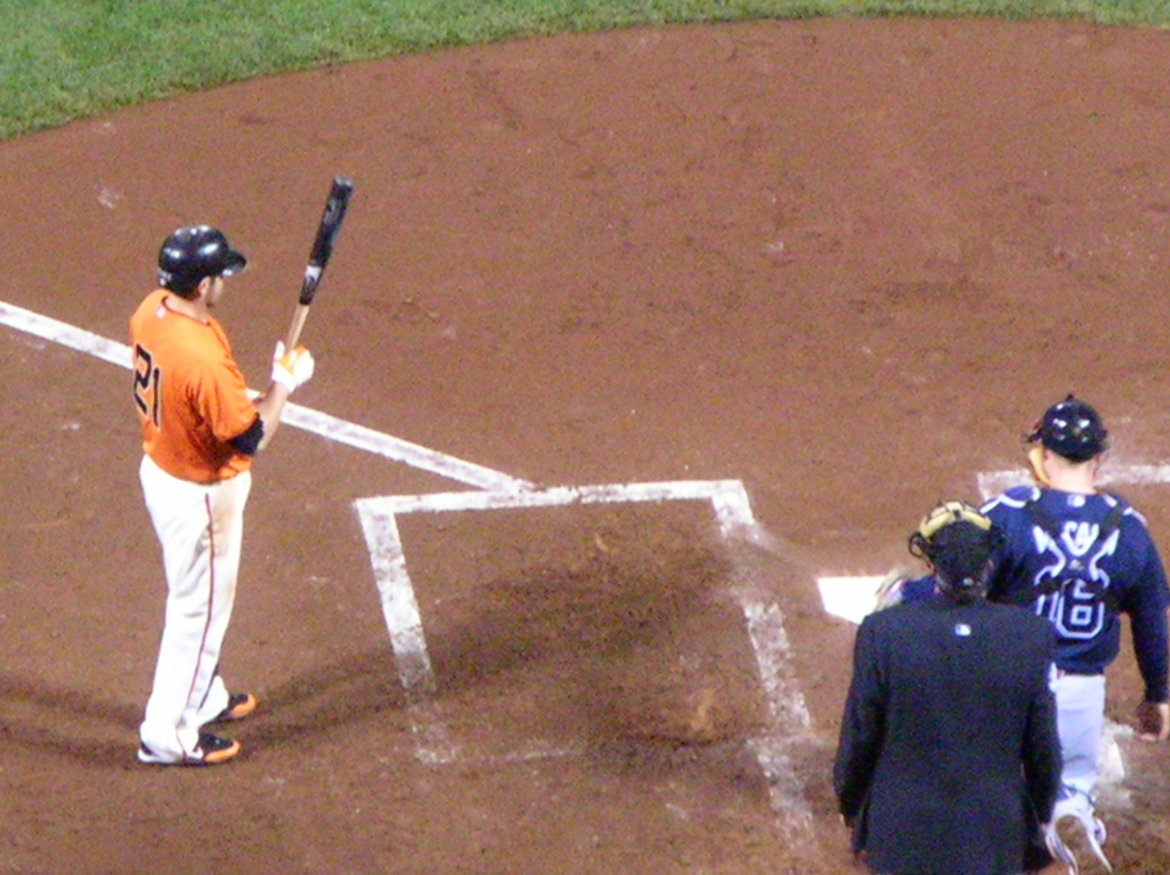 San Francisco Giants second baseman Freddy Sanchez at bat during Game 2 of the National League Division Series against the Atlanta Braves at AT&T Park. The Braves won 5-4 in extra innings.